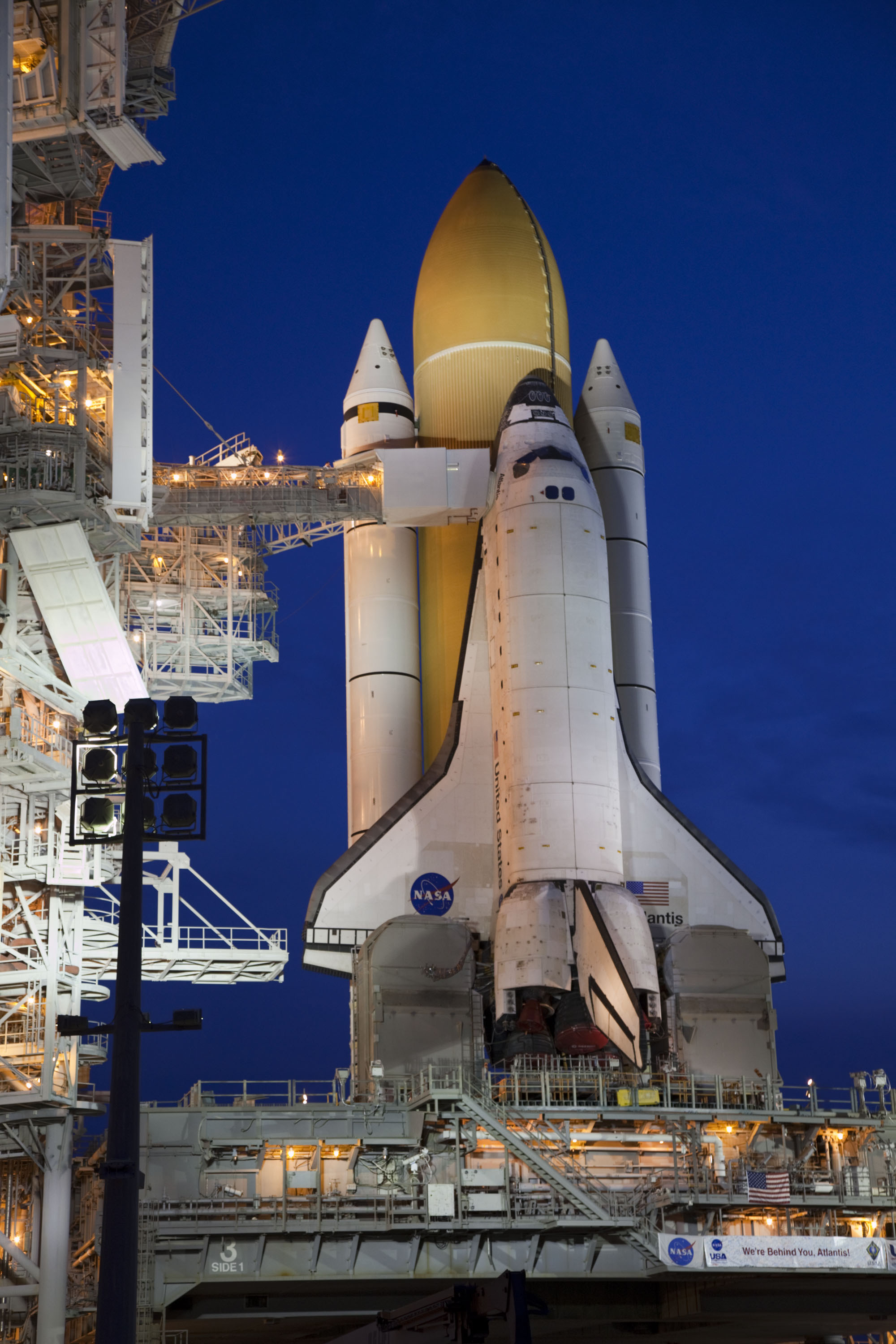 CAPE CANAVERAL, Fla. – Dawn approaches after space shuttle Atlantis completed its historic final journey to Launch Pad 39A from NASA Kennedy Space Center's Vehicle Assembly Building. Atlantis was secured or "hard down," at its seaside launch pad at 3:29 a.m. EDT on Wednesday, June 1. The milestone move, known as "rollout," paves the way for the launch of the STS-135 mission to the International Space Station, targeted for July 8. STS-135 will be the 33rd flight of Atlantis, the 37th shuttle mission to the space station, and the 135th and final mission of NASA's Space Shuttle Program. For more information visit